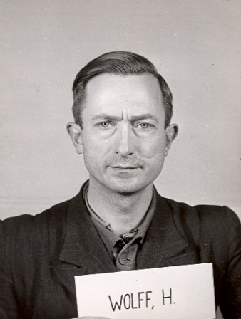 Hans Helmut Wolff (1910-1969) at the Nuremberg Trials. Wolff was SS-Obersturmbannführer and member of the Reichssicherheitshauptamt. This photograph of Rasche (probably as a defendant) was taken by US Army photographers on behalf of the Office of the U.S. Chief of Counsel for the Prosecution of Axis Criminality (OUSCCPAC, May 1945 - Oct. 1946) or its successor organization, the Office of Chief of Counsel for War Crimes (OCCWC, Oct. 1946 - June 1949).